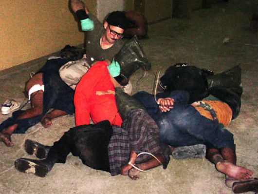 Spc. Charles Graner is punching handcuffed Iraqi prisoners, a photo from Abu Ghraib prison in Iraq which was part of the evidence used against US soldiers accused of torturing and humiliating Iraqi prisoners of war. U.S. Army / Criminal Investigation Command (CID). Seized by the U.S. Government.